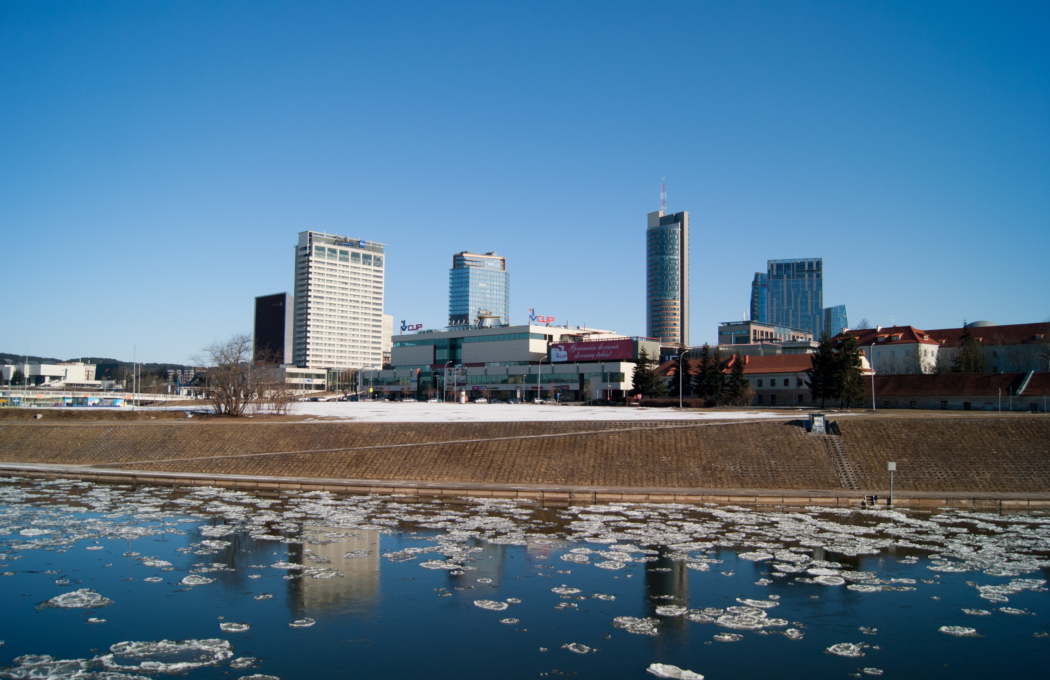 More informations about the city on !